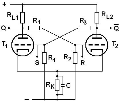 Flip-flop circuit with triodes